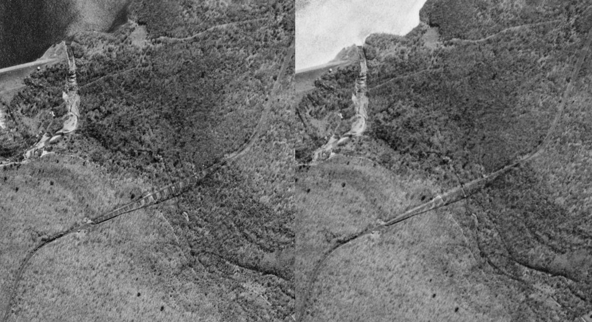 This is a "cross-eyed" stereogram image of the Wilkes-Barre and Eastern Panther Creek Viaduct. To view the image, cross your eyes gradually until the 3-D image appears. It may help to hold a fingertip near to your nose, focus on your fingertip, and slowly move it toward the image until you see the photo in the background. The image was constructed from consecutive frames of aerial photography taken in 1939 by the Agricultural Adjustment Administration of the U.S. government.